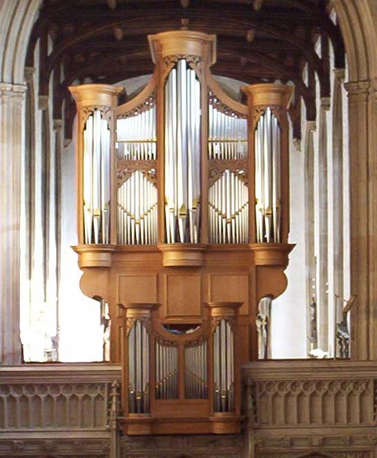 Photograph of the organ in the University Church of St Mary the Virgin, Oxford. Photo by me.--Alf melmac 14:51, 7 February 2007 (UTC)